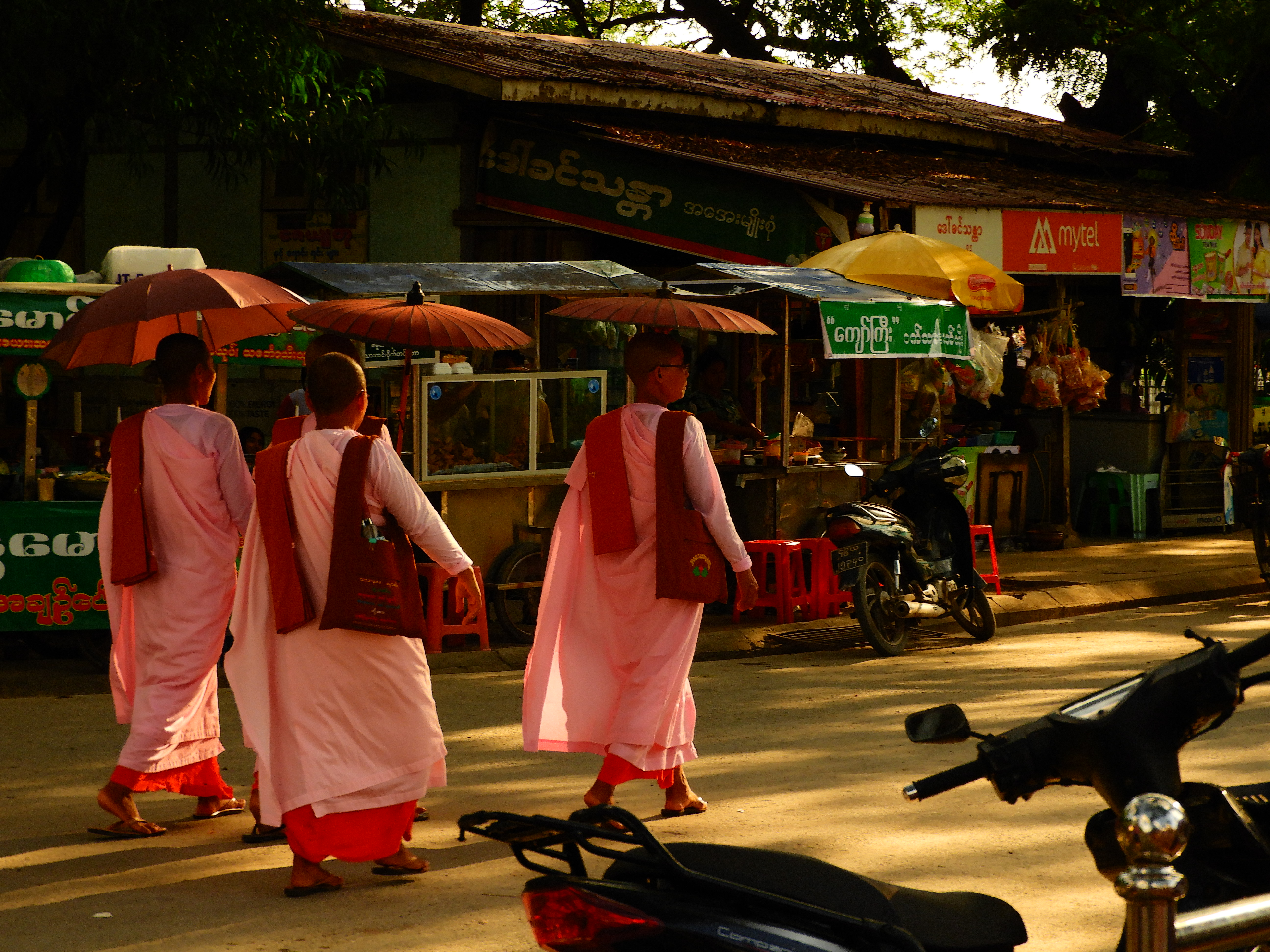 Buddhist nuns are the less famous female counterpart of Buddhist monks. Many girls spend a period of time in a monastery, during their childhood and youth. The nuns wear a pink robe, instead of the red or orange ones worn by the monks. This photo has been taken in the country: Myanmar